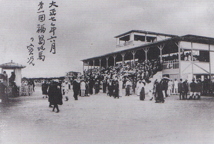 The_first_meeting_of_fukushima_keiba club.(Fukushima racecourse)